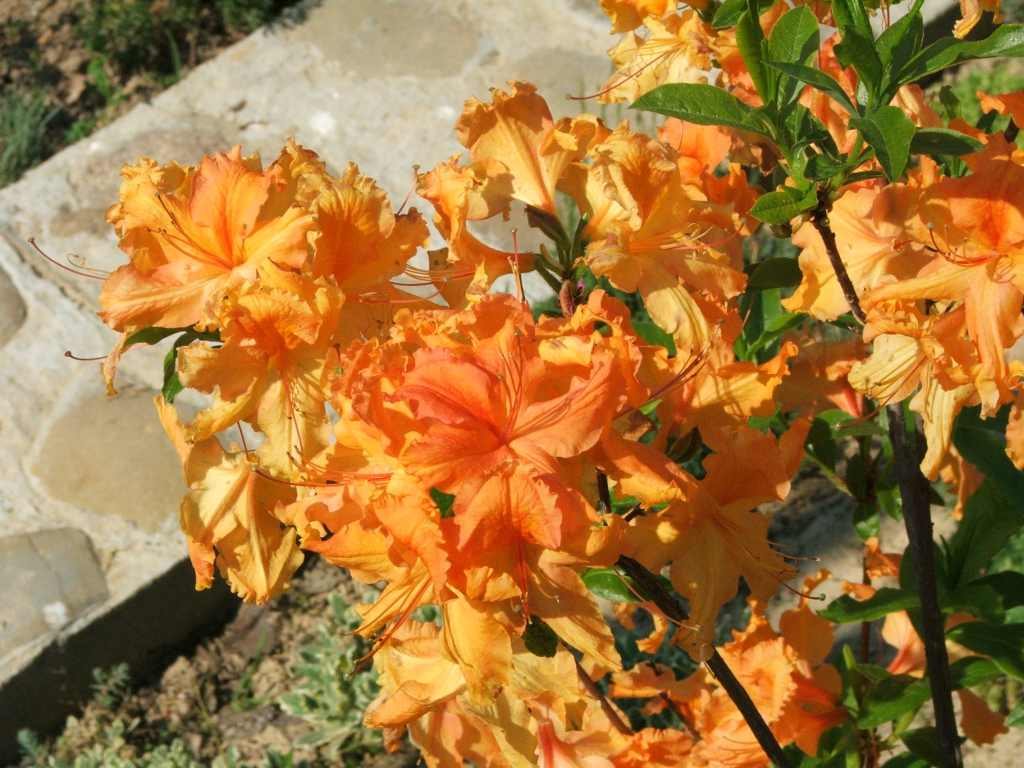 Rhododendron